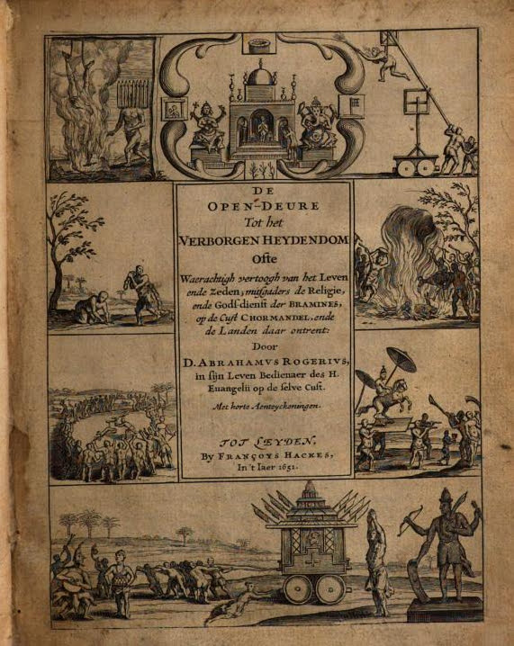 Title page of De Open-Deure Tot het Verborgen Heydendom Ofte Waerachtigh vertoogh van het Leven ende Zeden, mitsgaders de Religie ende Gods-dienst der Bramines op de Cust Chormandel ende der Landen daar ontrent by D. Abrahamus Rogerius (Leyden: Françoys Hackes, 1651)